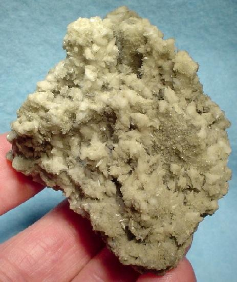 Strontianite Locality: Strontian, North West Highlands (Argyllshire), Scotland, UK (Locality at ) Size: 6.8 x 5.4 x 4.5 cm. An OLD-TIME, showy strontianite specimen from the Type Locality. The piece consists of gray strontianite crystals in stalactitic and curtain-like growths. Ex. Lord Calvert Collection.